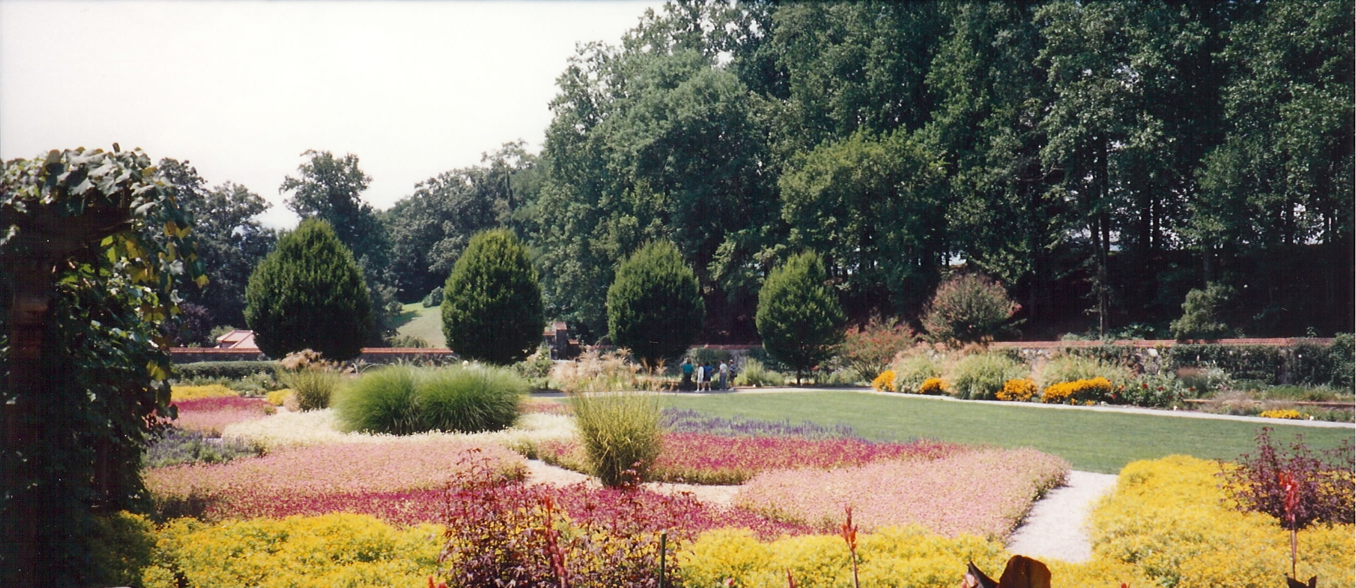 View of the gardens of the Biltmore Estate.